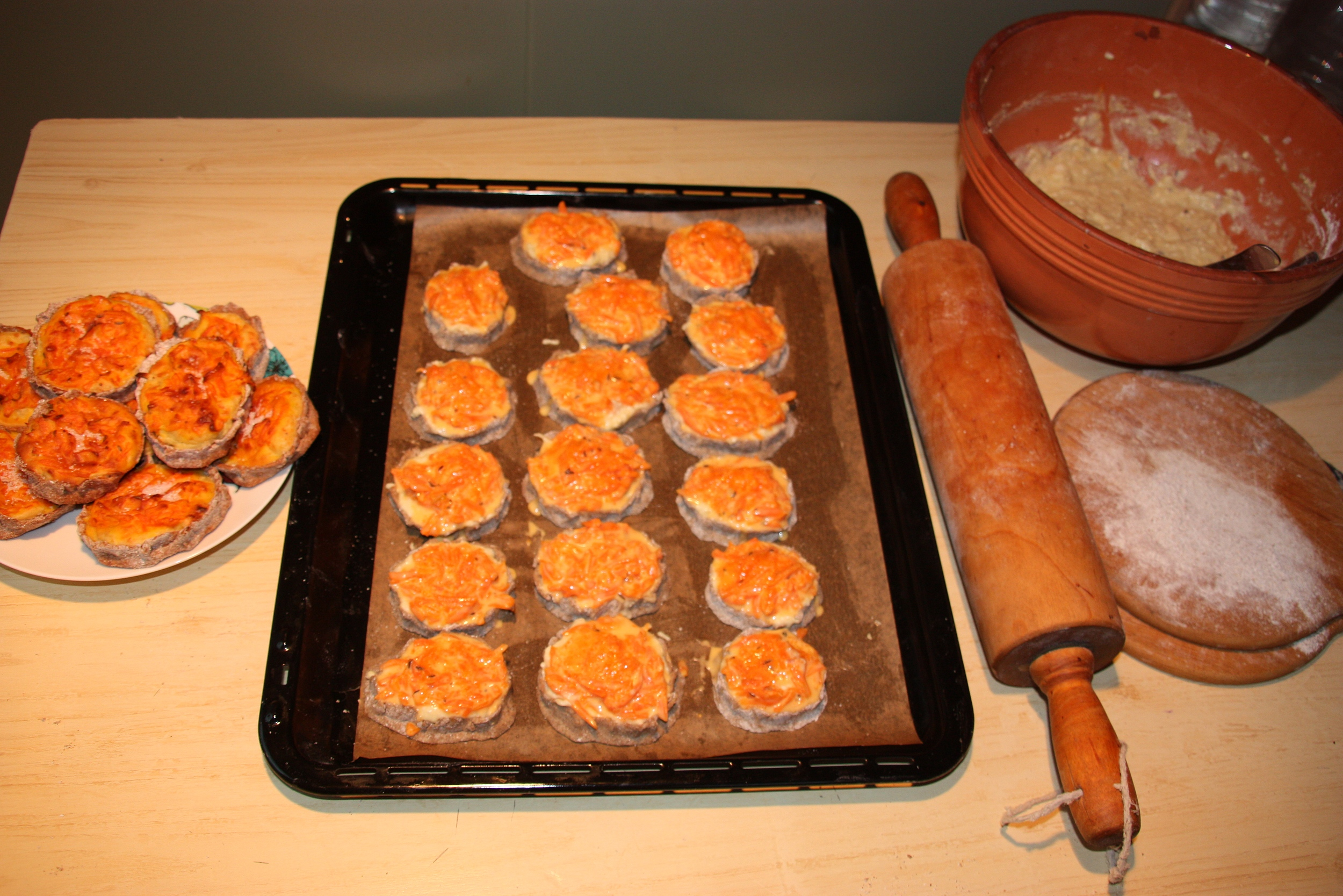 The sklandrausis, a small, almost bite-sized pie made of rye flour with a filling of potatoes and carrots, a unique dish from the western part of Latvia, Kurzeme, has received a “Traditional Speciality Guaranteed” designation from the European Commission.